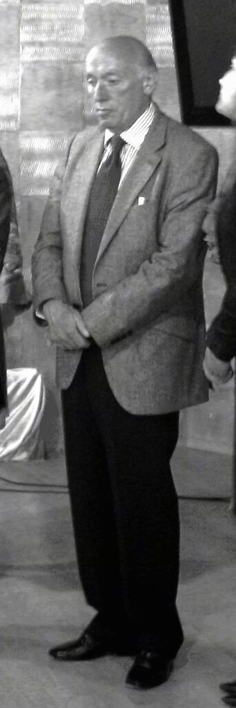 Pinchas Steinberg, conductor, in Moscow 2011.